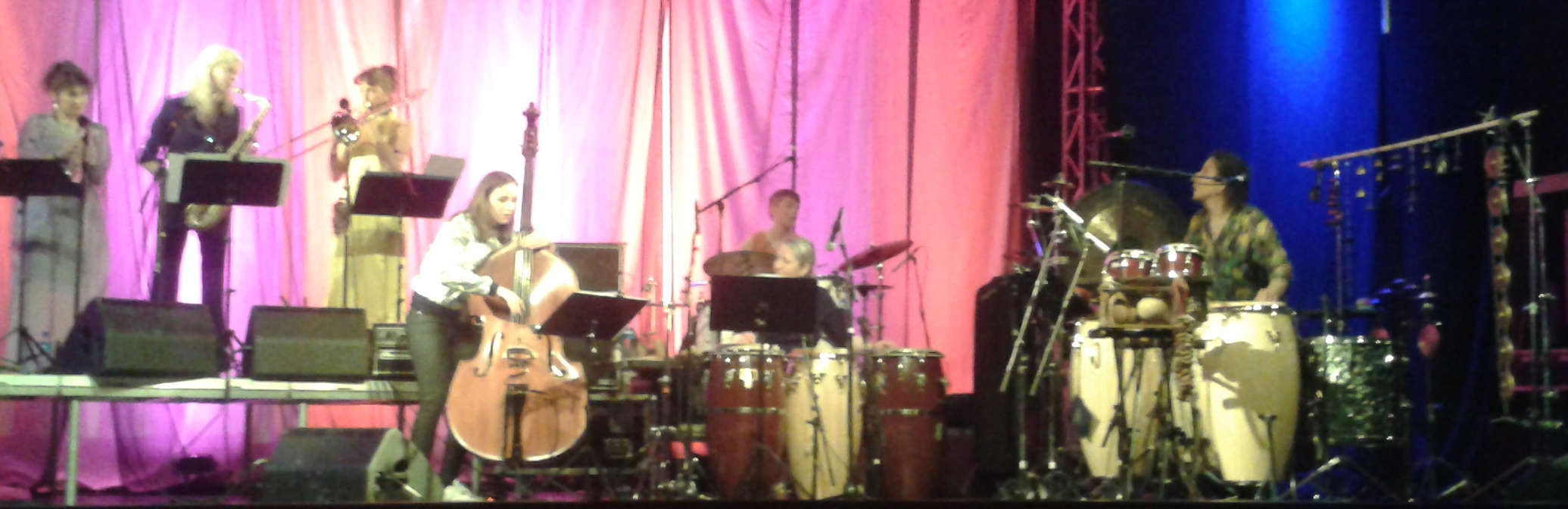 Mrilyn Mazurs Shamania at Vossajazz 2016